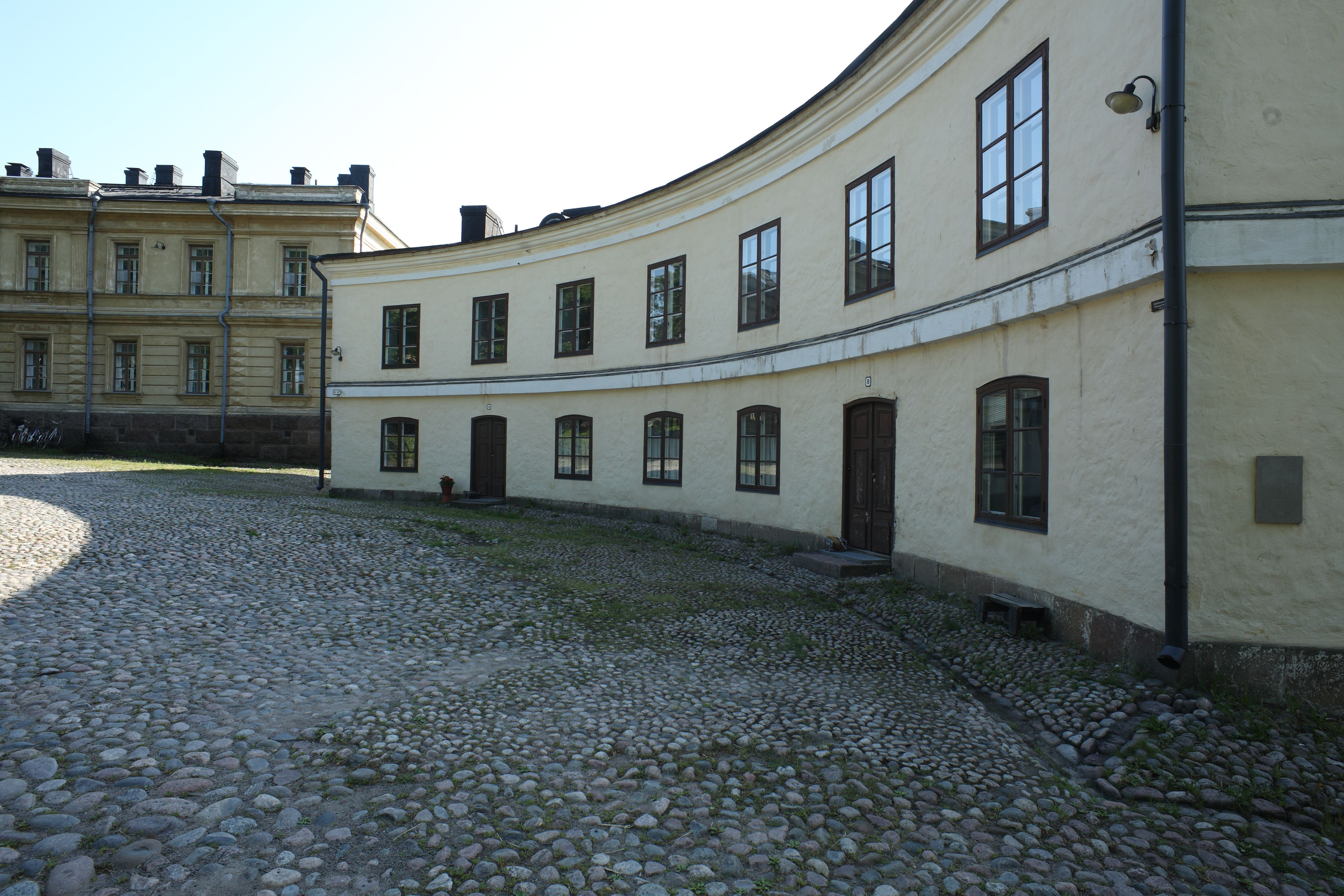 Great Courtyard, Sveaborg - Suomenlinna, Helsinki